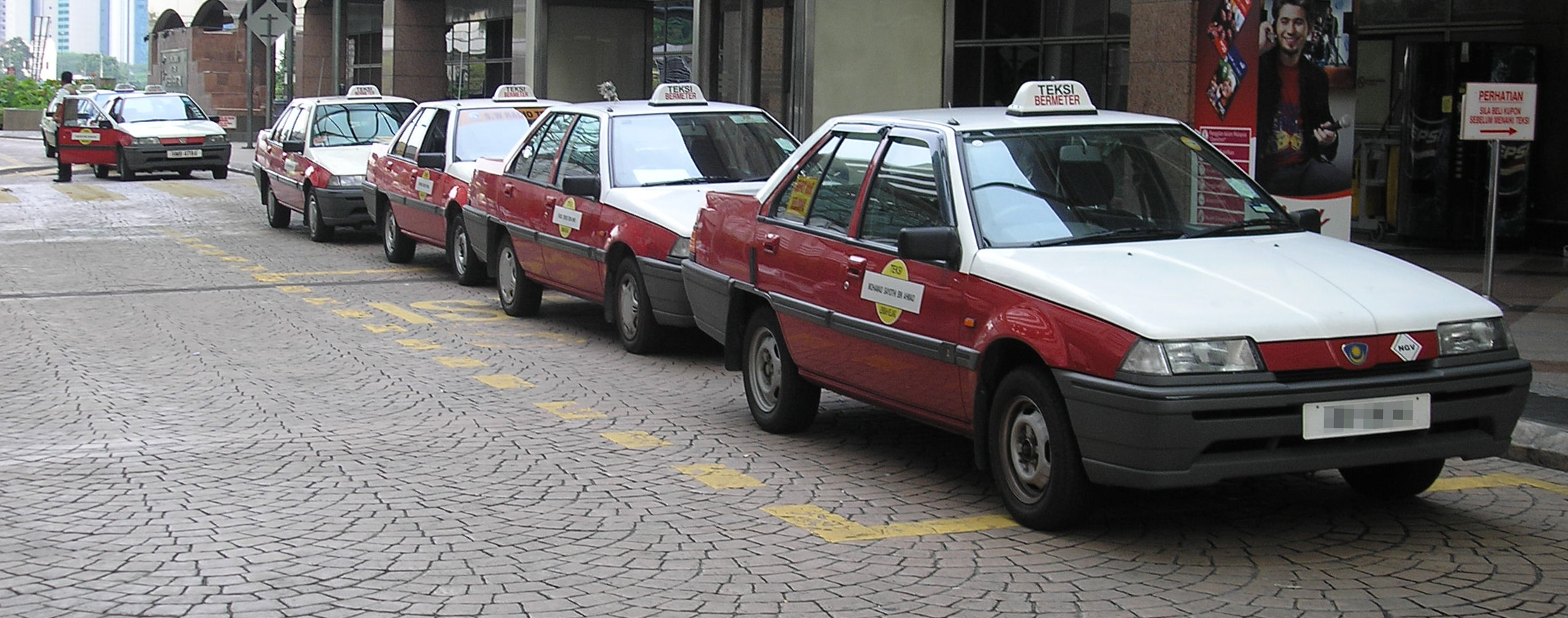 A row of Proton Iswara-based taxis at Kuala Lumpur Sentral, Kuala Lumpur, Malaysia. Many are Natural Gas (NGV) powered for economy.